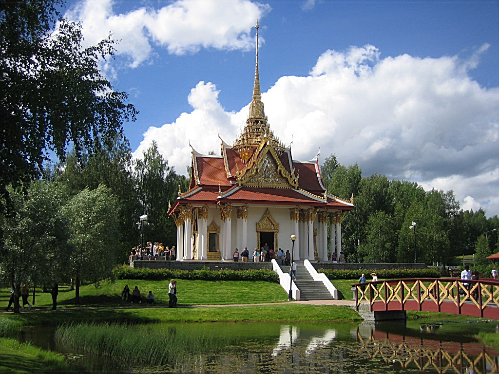 King Chulalongkorn Memorial Pavilion in Utanede, Ragunda, Jämtland, Sweden